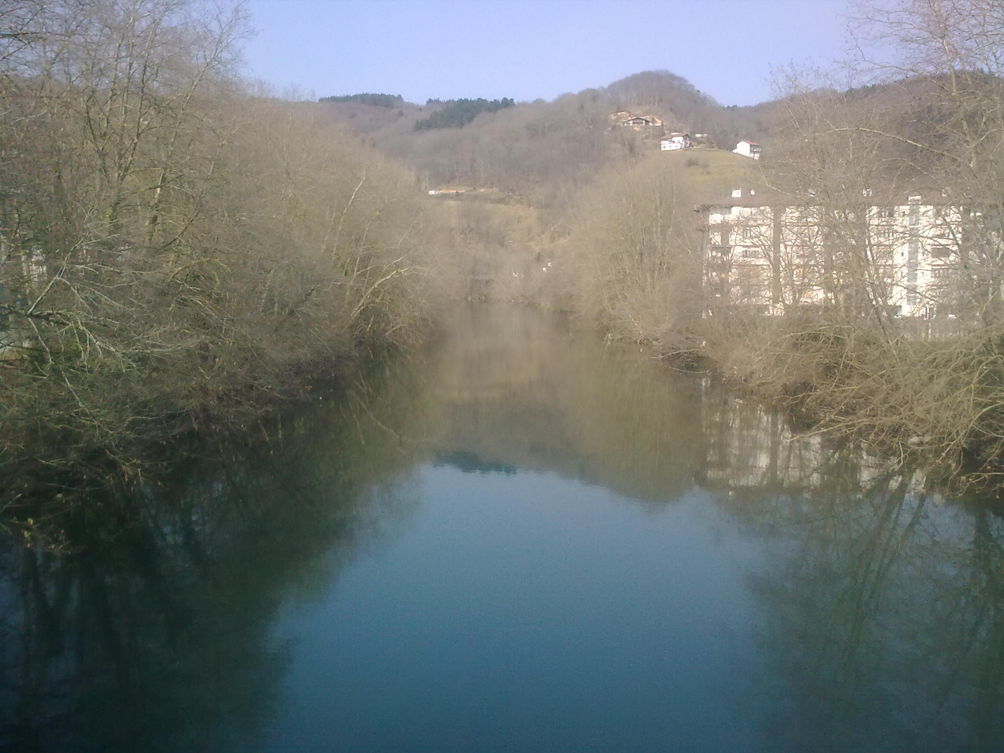 River Bidasoa (Bera, Navarre)